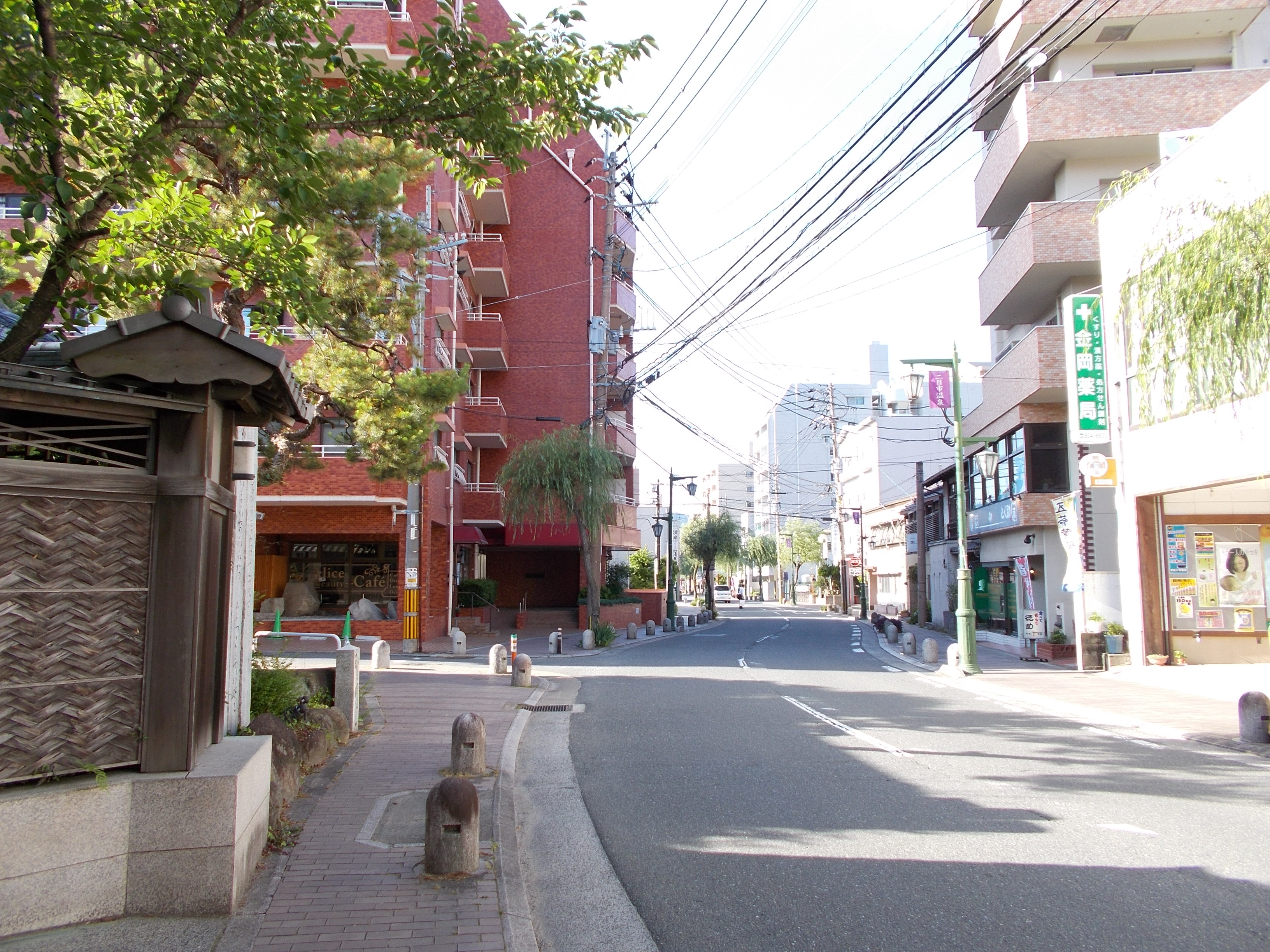 The Fukuoka Prefectural Road 7 near Futsukaichi Onsen Iriguchi (=entrance) Intersection, Chikushino, Fukuoka, Japan